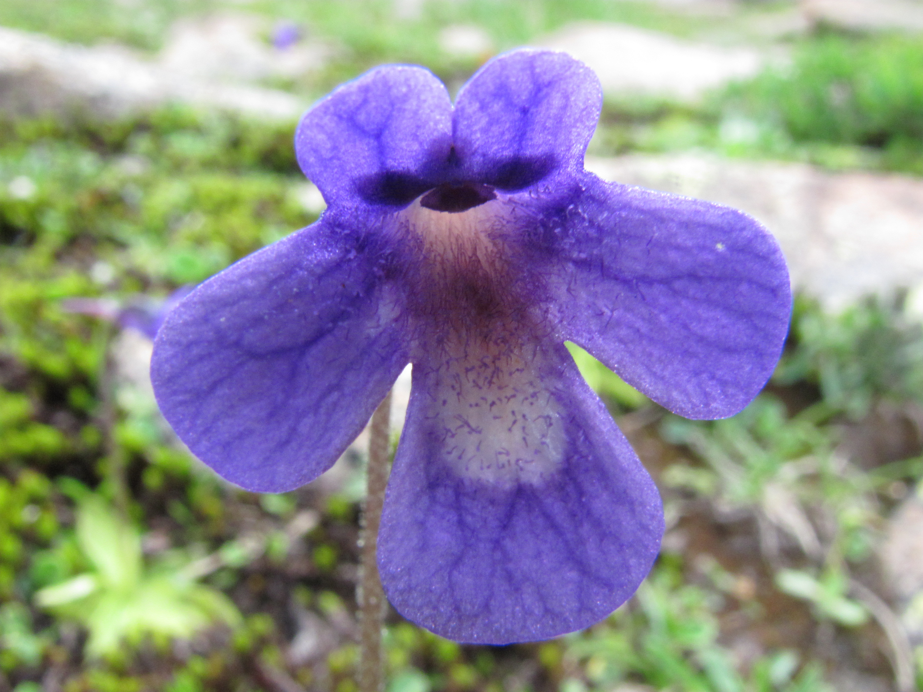 Flower of pinguicula balcanica